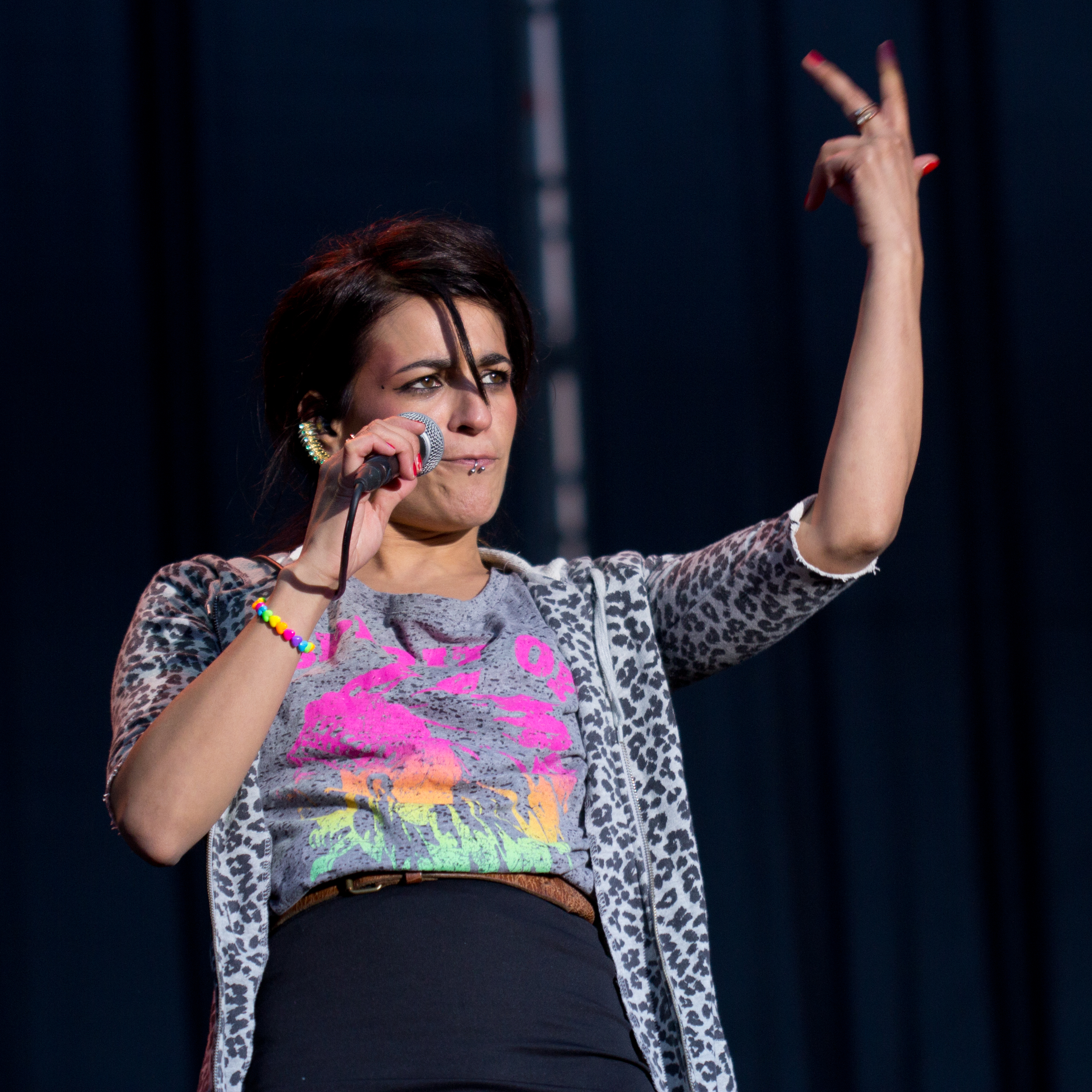 Spanish singer Bebe live at Músicos en la Naturaleza, Hoyos del Espino, Ávila, Spain.